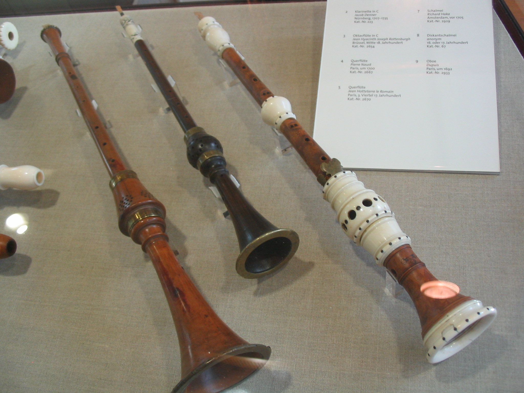 From left to right: Shawm made in Amsterdam before 1705; anonimous treble shawm (16th o 17th Century); oboe by Dupuis, in Paris ca. 1692. Museum of Musical Instruments Berlin.